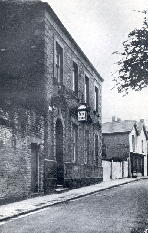 Photo of building Wallace and his brother designed and built for Mechanics Institute of Neath in the 1840s.